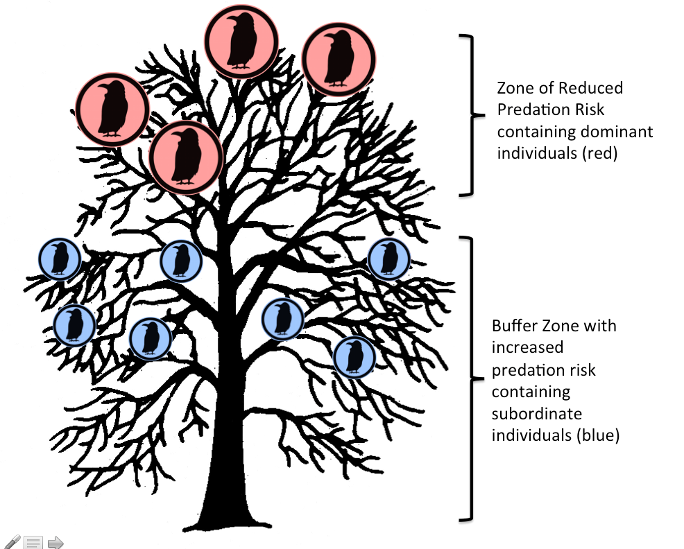 A stylized example of a communal roost in birds with dominant individuals occupying the higher and safer positions.